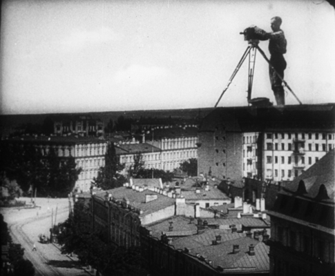 Still from Vertov's Man with a Movie Camera.